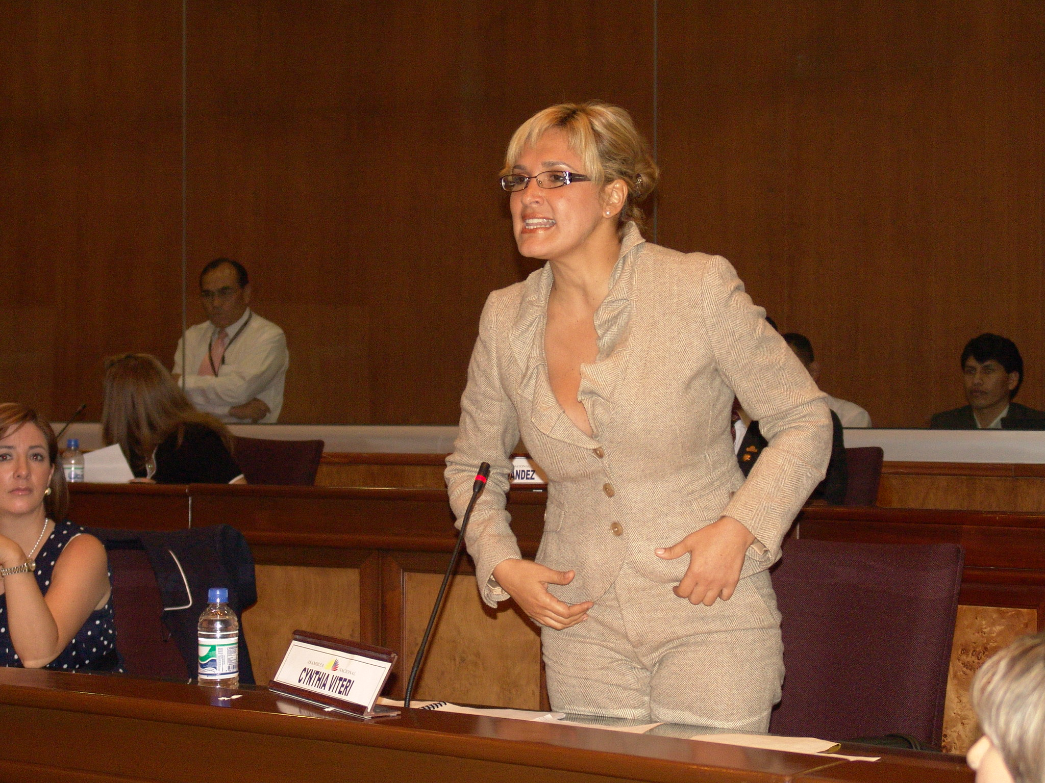 Asambleista Cynthia Viteri